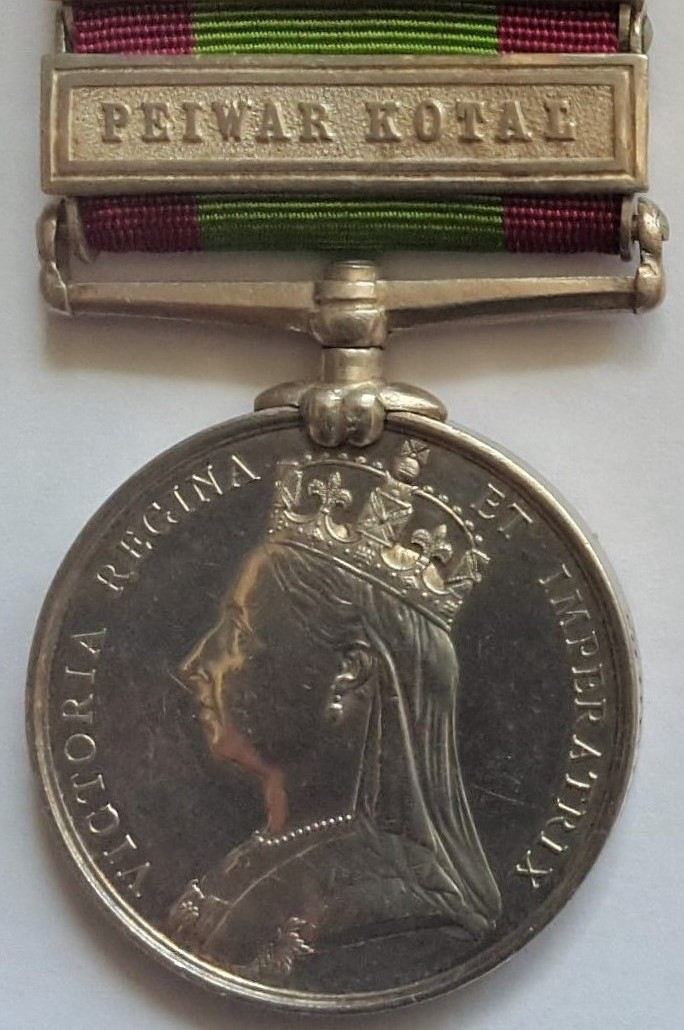 Afghanistan Medal 1880 Obverse with clasp